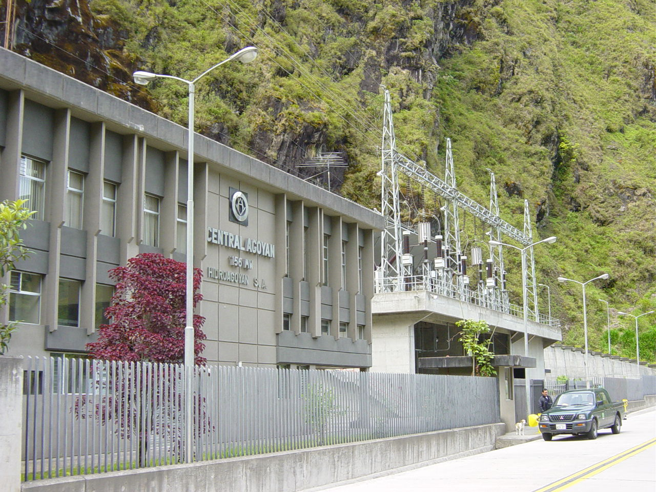 Hydro-power station Central Agoyan near Baños, Ecuador